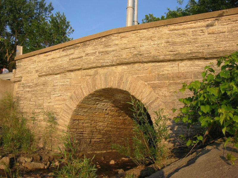 The Mendota Road Bridge across from downtown St. Paul, Minnesota.